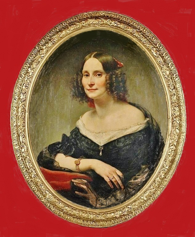 Portrait Ernestine von Wildenbruch